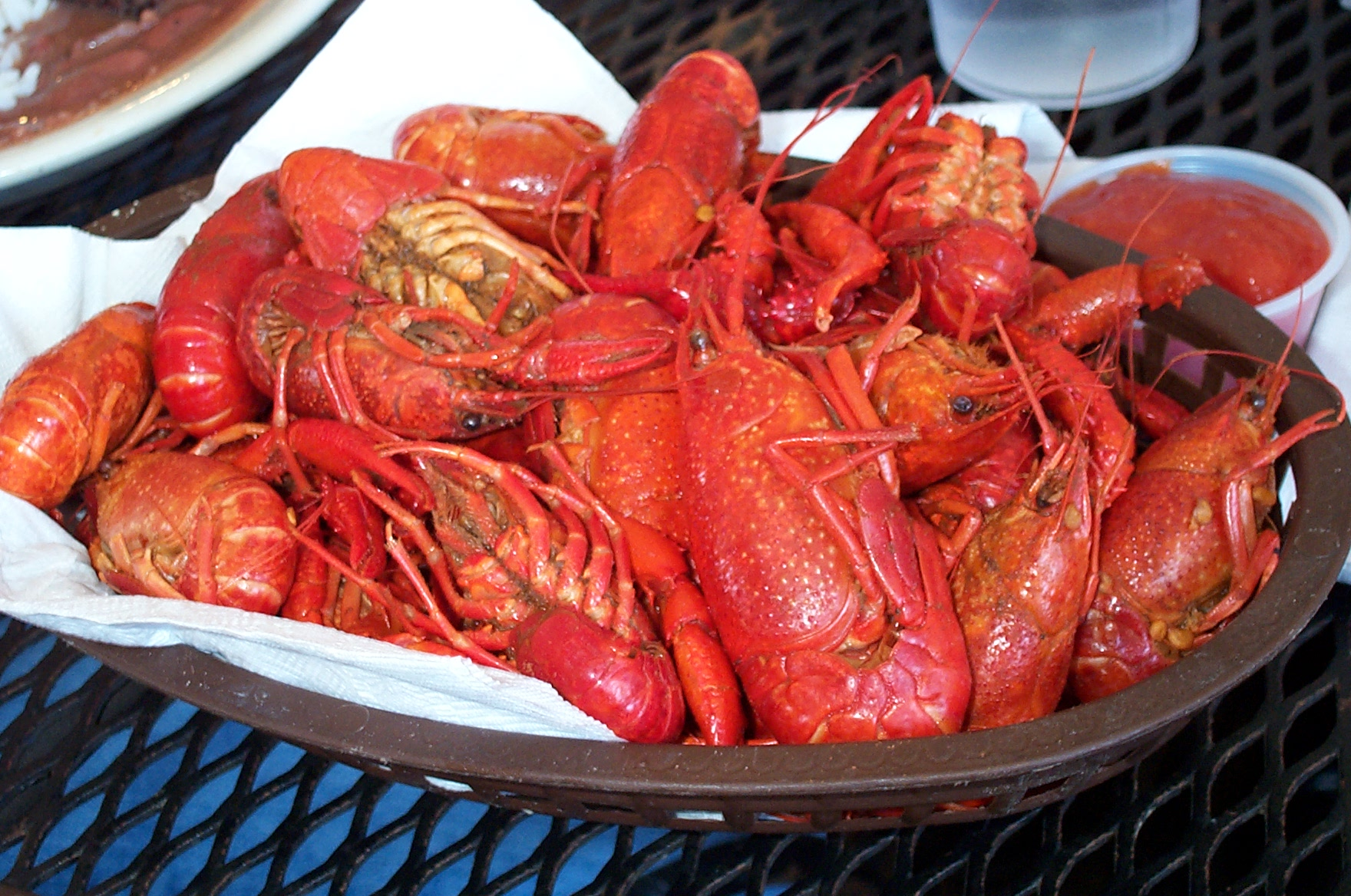 A meal of crawdads, Spring Break in New Orleans